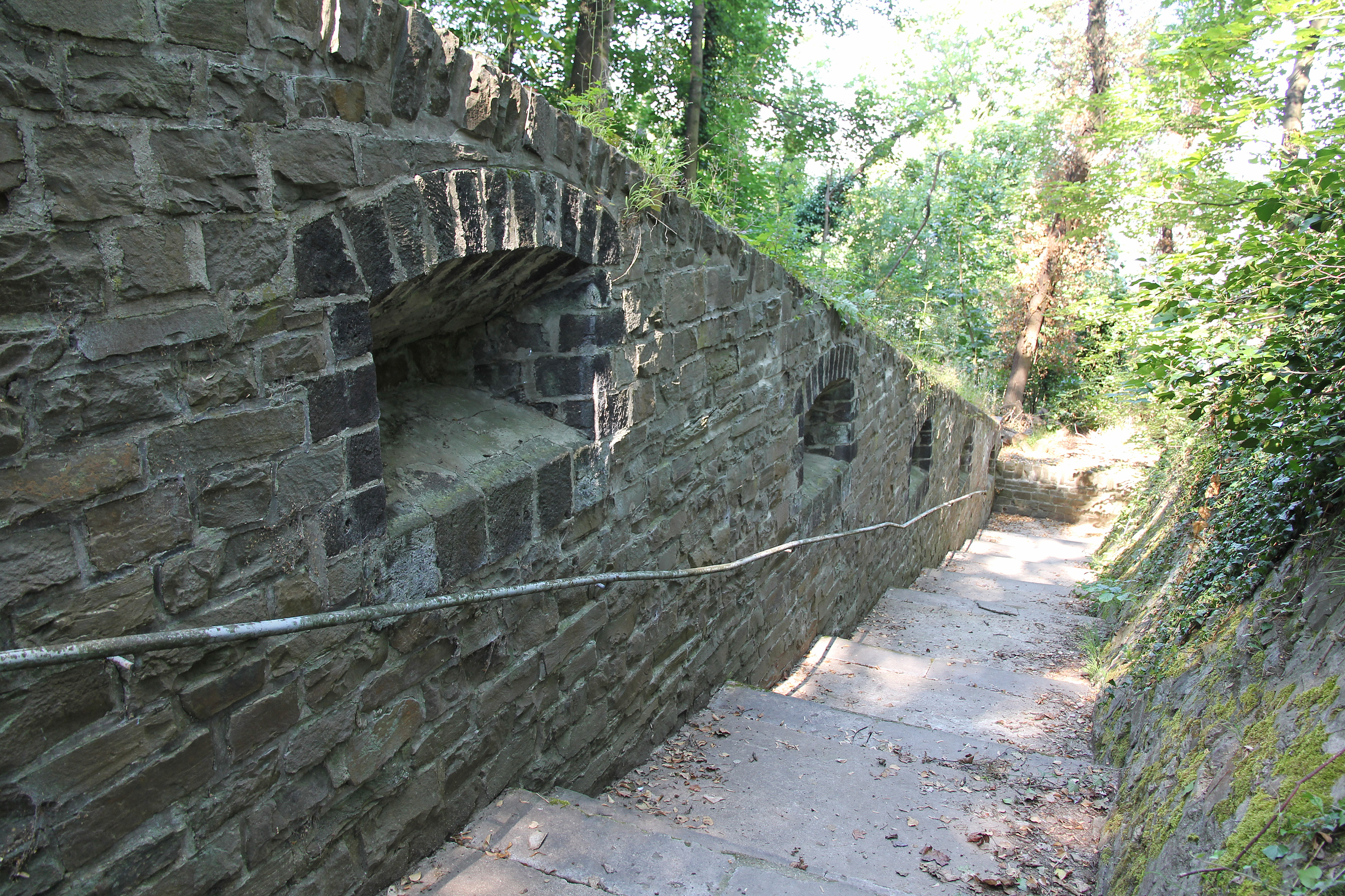 Devil's Staircase in Koblenz